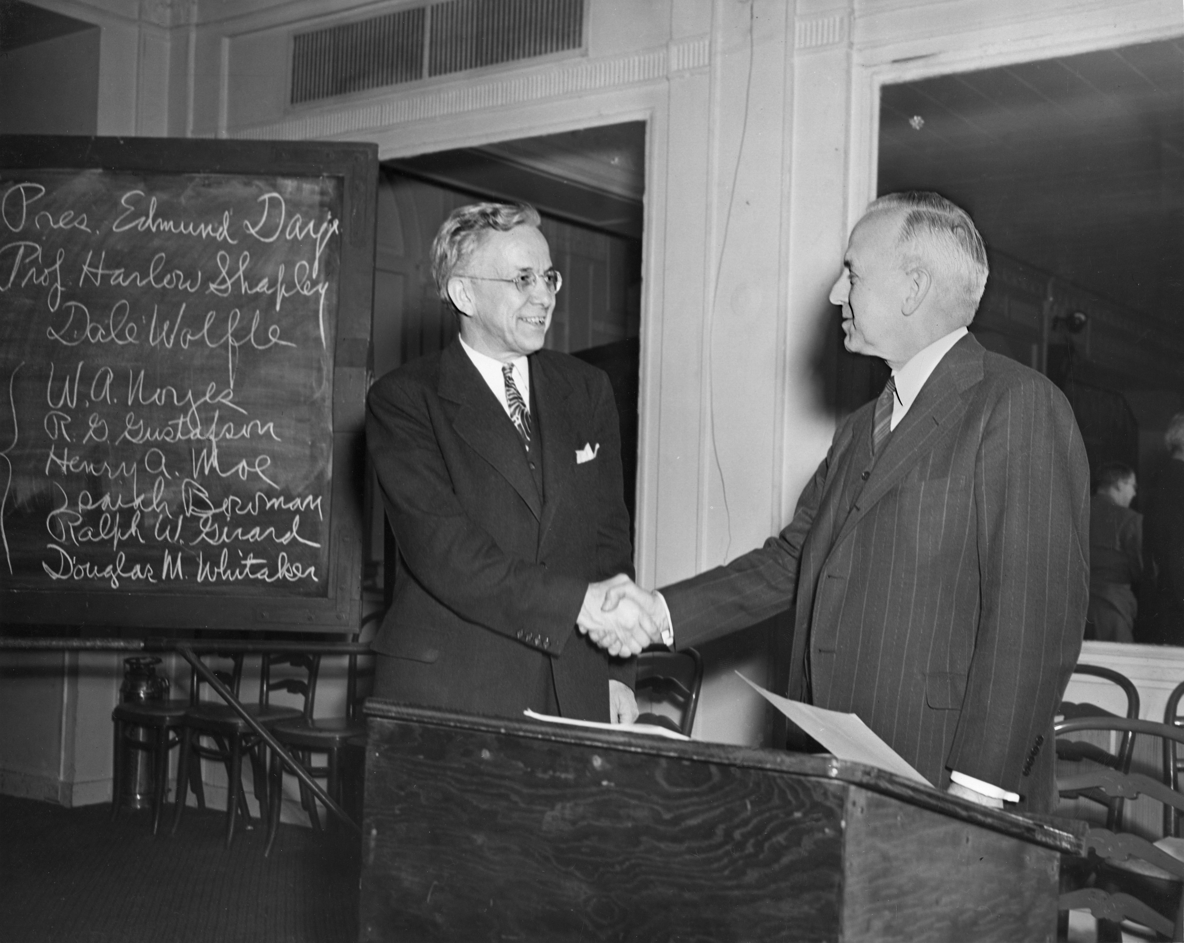 Geologist Kirtley Fletcher Mather (1888-1978) and Cornell University president and economist Edmund Ezra Day (1883-1951) were attending an Inter-Society meeting in Washington, D.C., February 23, 1947, when this photograph was taken.